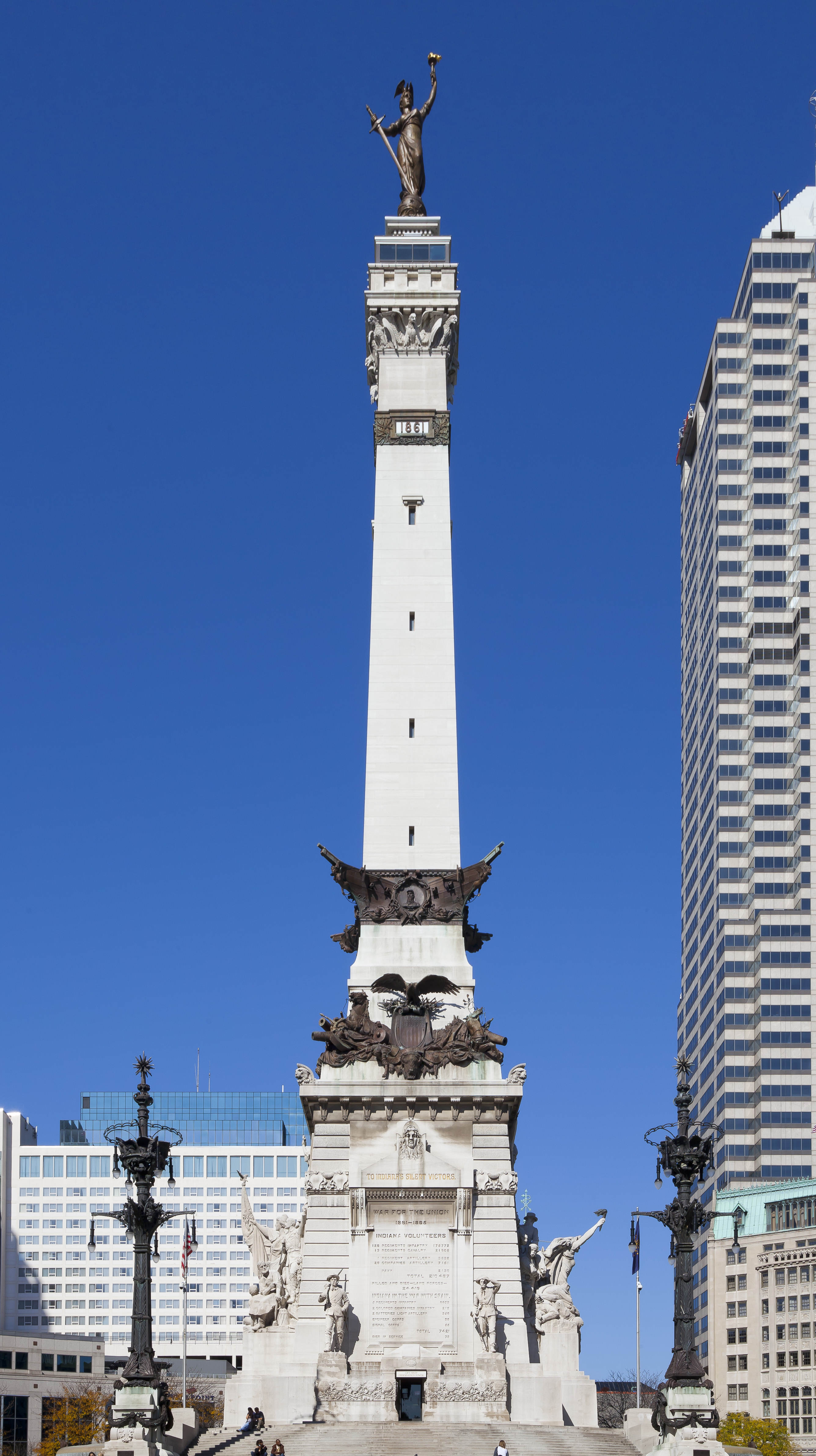 Soldiers' and Sailors' Monument, Indianapolis, USA